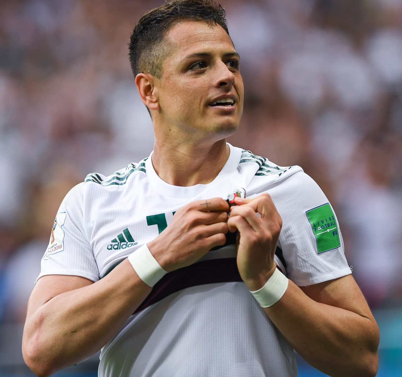 Javier Hernández Balcázar